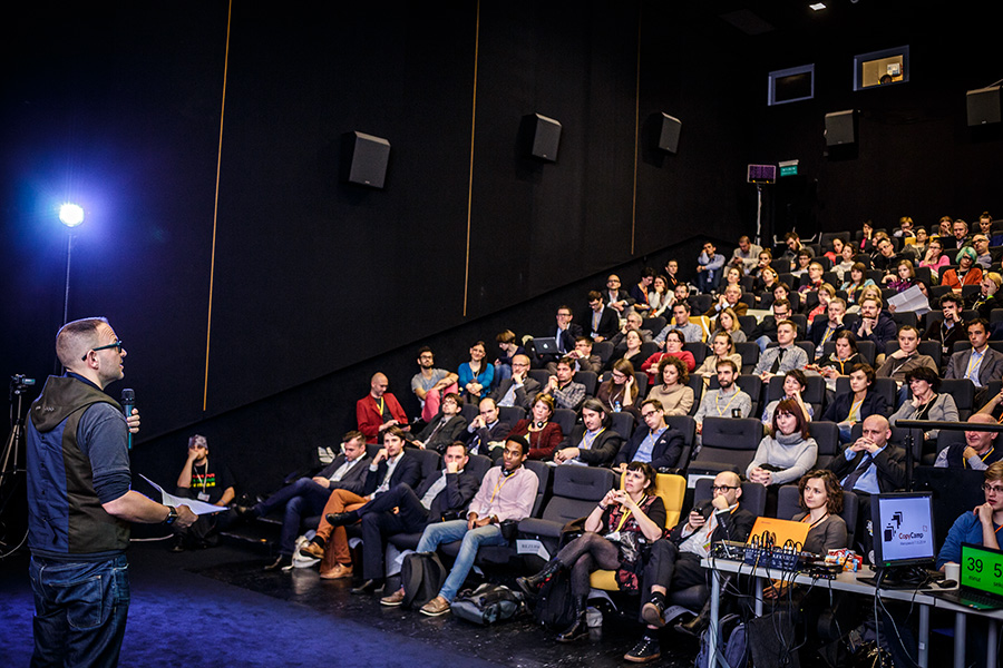 Cory Doctorow presentation "Information Doesn’t Want to Be Free" on CopyCamp 2014 in Warsaw (Nova Praha cinema, room A)